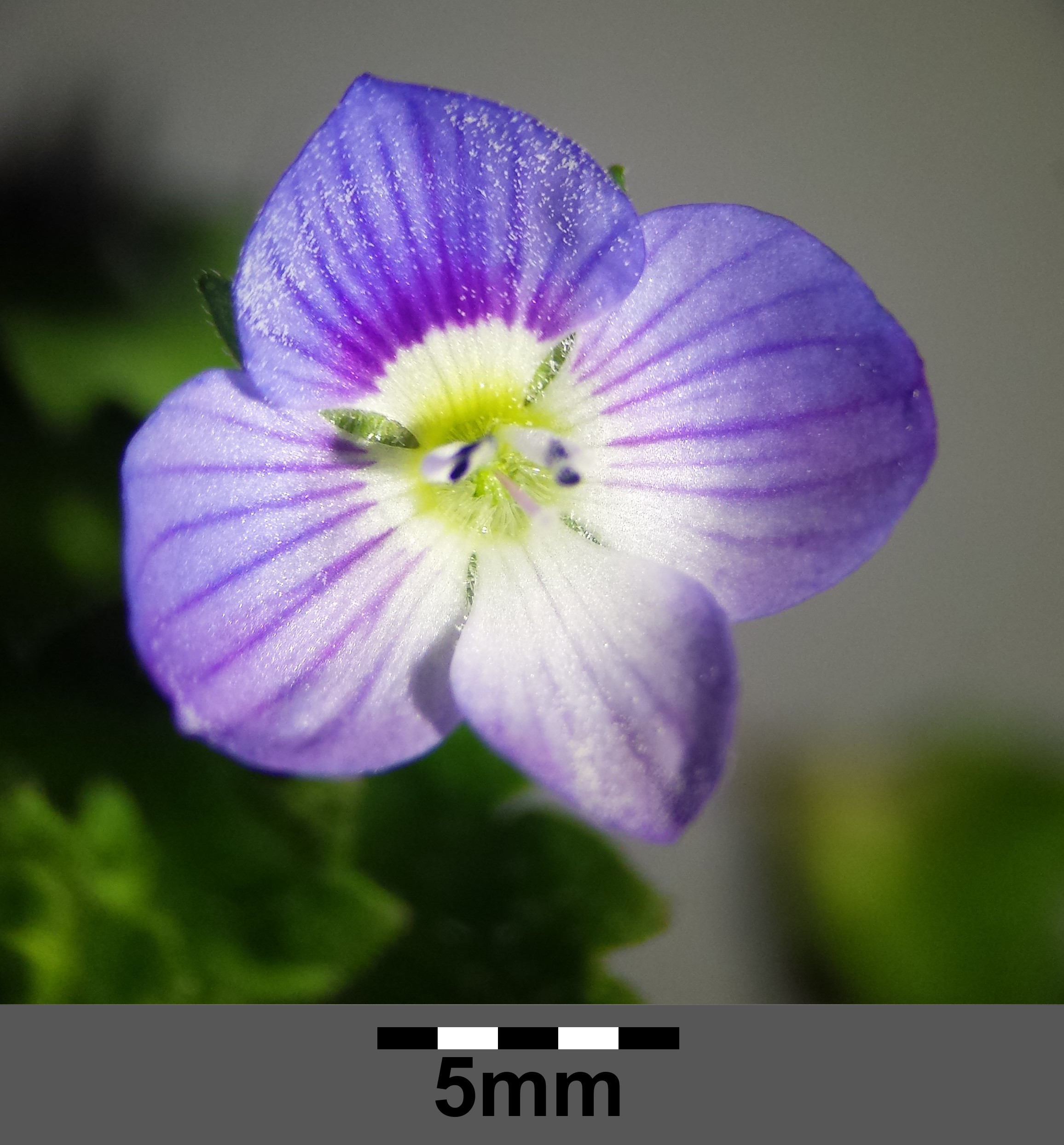 Flower, front view Taxonym: Veronica persica ss Fischer et al. EfÖLS 2008 ISBN 978-3-85474-187-9 Location: Sinawastingasse, Vienna-Floridsdorf - ca. 160 m a.s.l. Habitat: slope